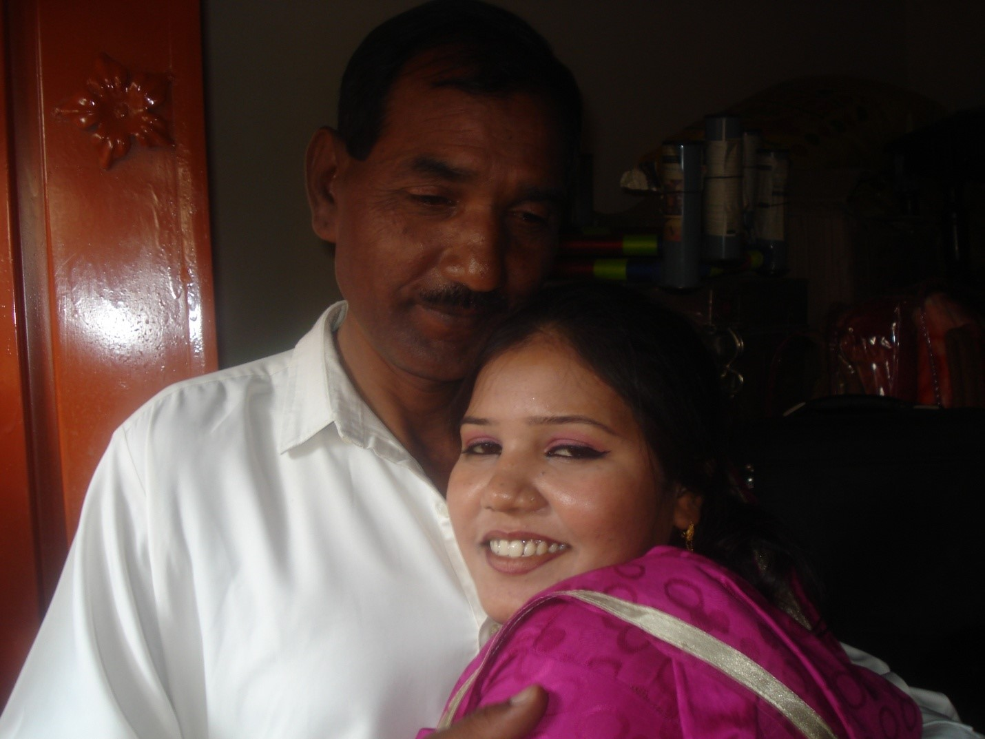 Sidra, daughter of Asia Bibi with her father Ashiq Masih in May 2013